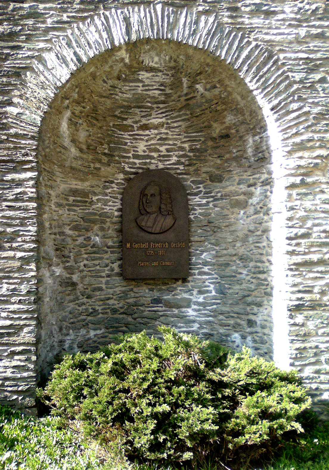 Foto of the Oesfeld commemorative plaque at the St.-Johannis-Church in Loessnitz.